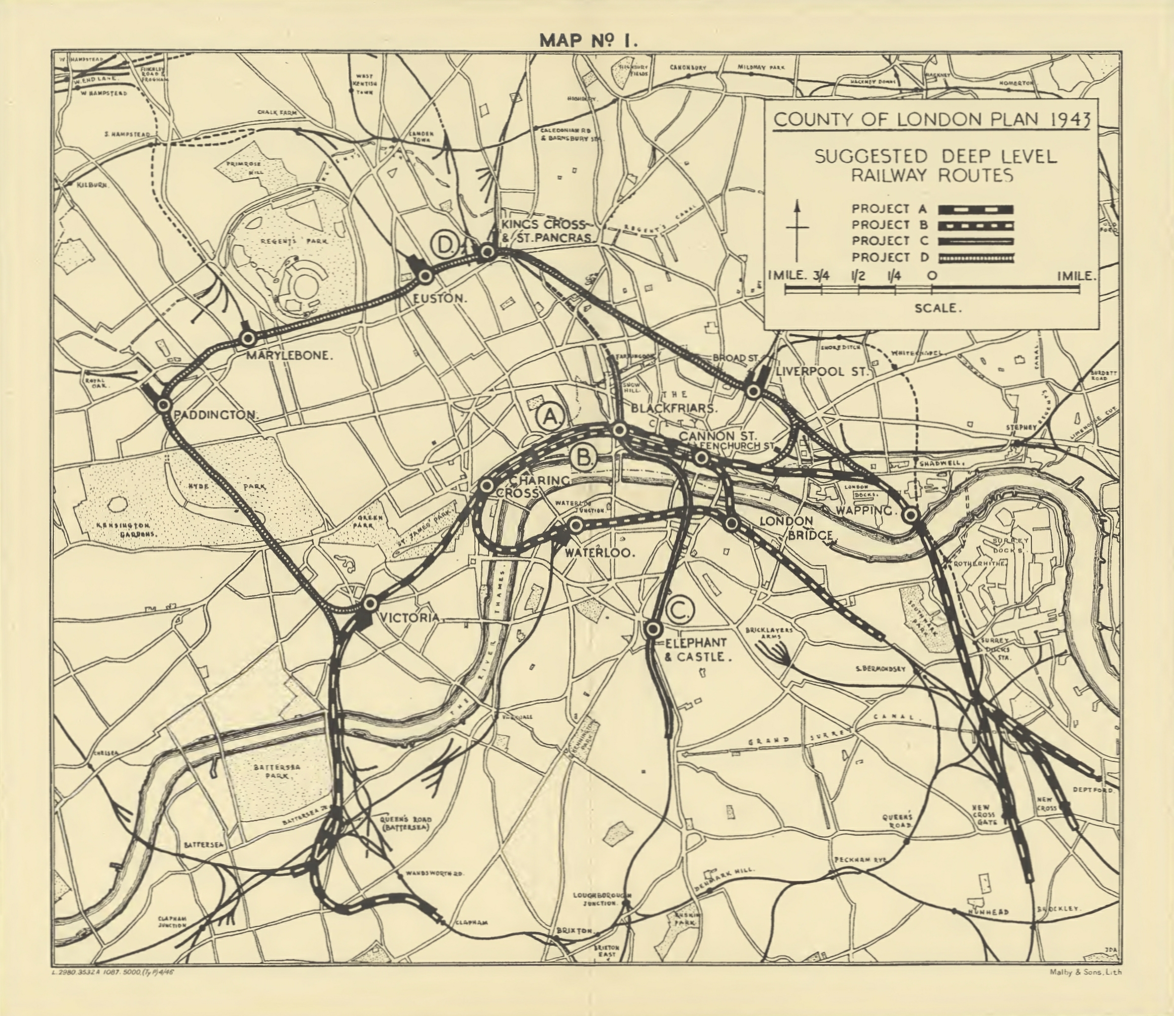 Map 1 from report, showing proposed new rail routes for The County of London Plan 1943